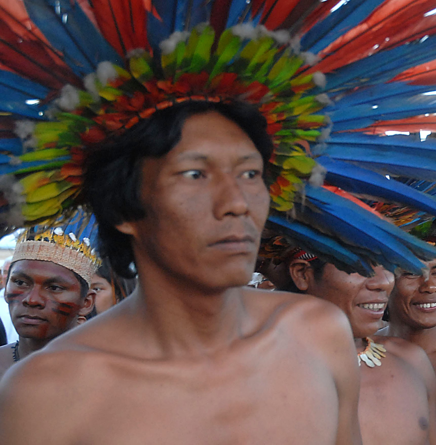 Bororo-Boe man at Brazil's ninth Indigenous Games